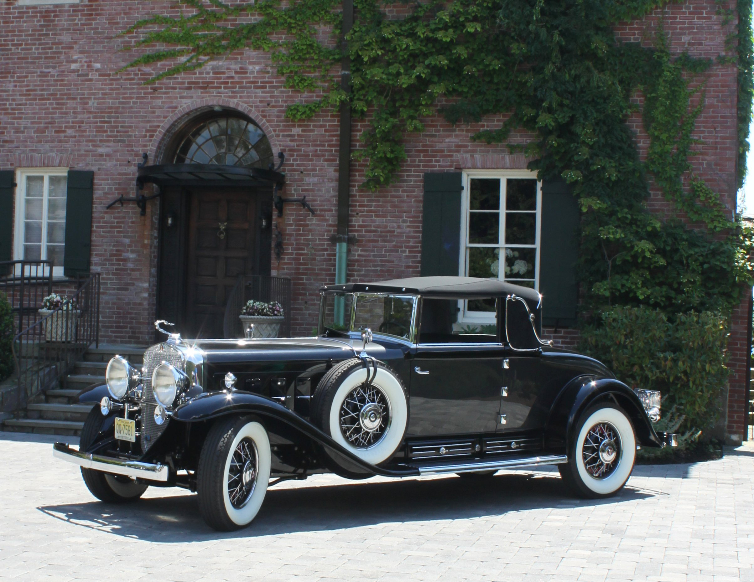 Best of Show winner at the 2013 Misselwood Concours d'Elegance.